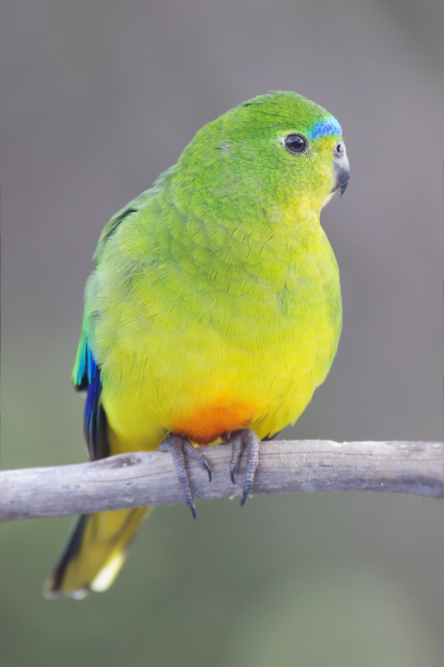 Orange-bellied Parrot (Neophema chrysogaster) female, Melaleuca, Southwest Conservation Area, Tasmania, Australia